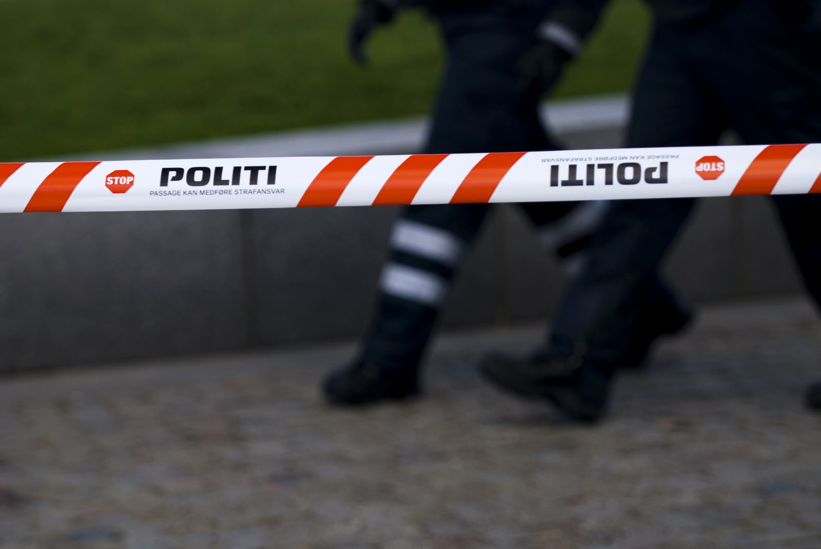 An police line/caution tape placed by Danish police. The line is made of non-sticky tape and the text reads: "Police. Passing may be punished."